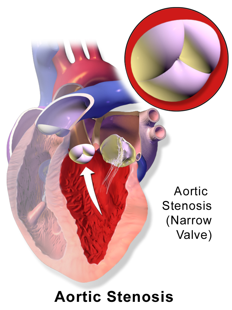 Aortic Stenosis. See a related animation of this medical topic.